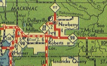 A section of the 1952 Official Michigan Highway Map showing the former BUS M-28 in Newberry in Michigan's Luce County.